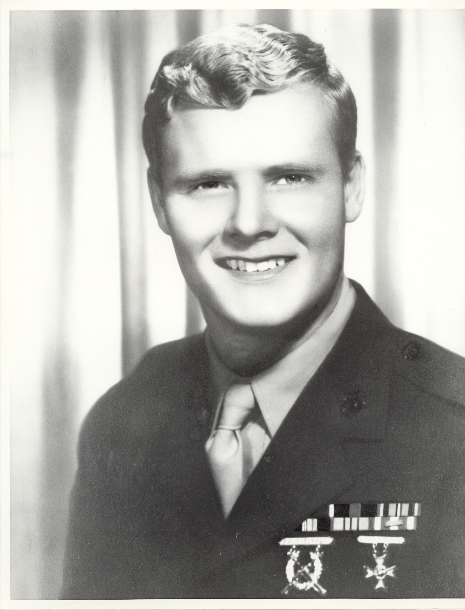 Lawrence D. Peters, USMC; Medal Honor recipient, killed in action in Vietnam Source: Official Marine Corps biography URL